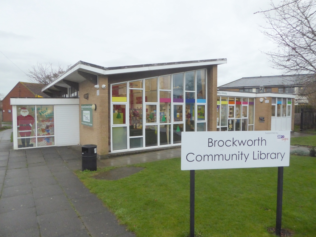 Took a different route on our way home today - slower, but the silver lining? Found 2 libraries. Both beautifully decorated for christmas, and both really busy. Spot the lifesize Father Christmas on this one!